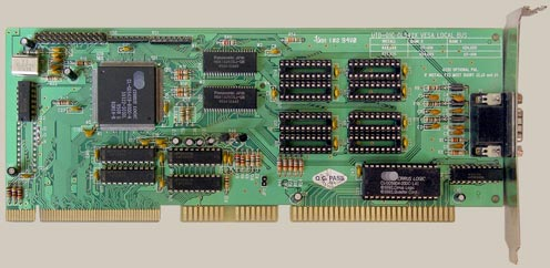 VLB SVGA card. (Photo by Miha Ulanov)